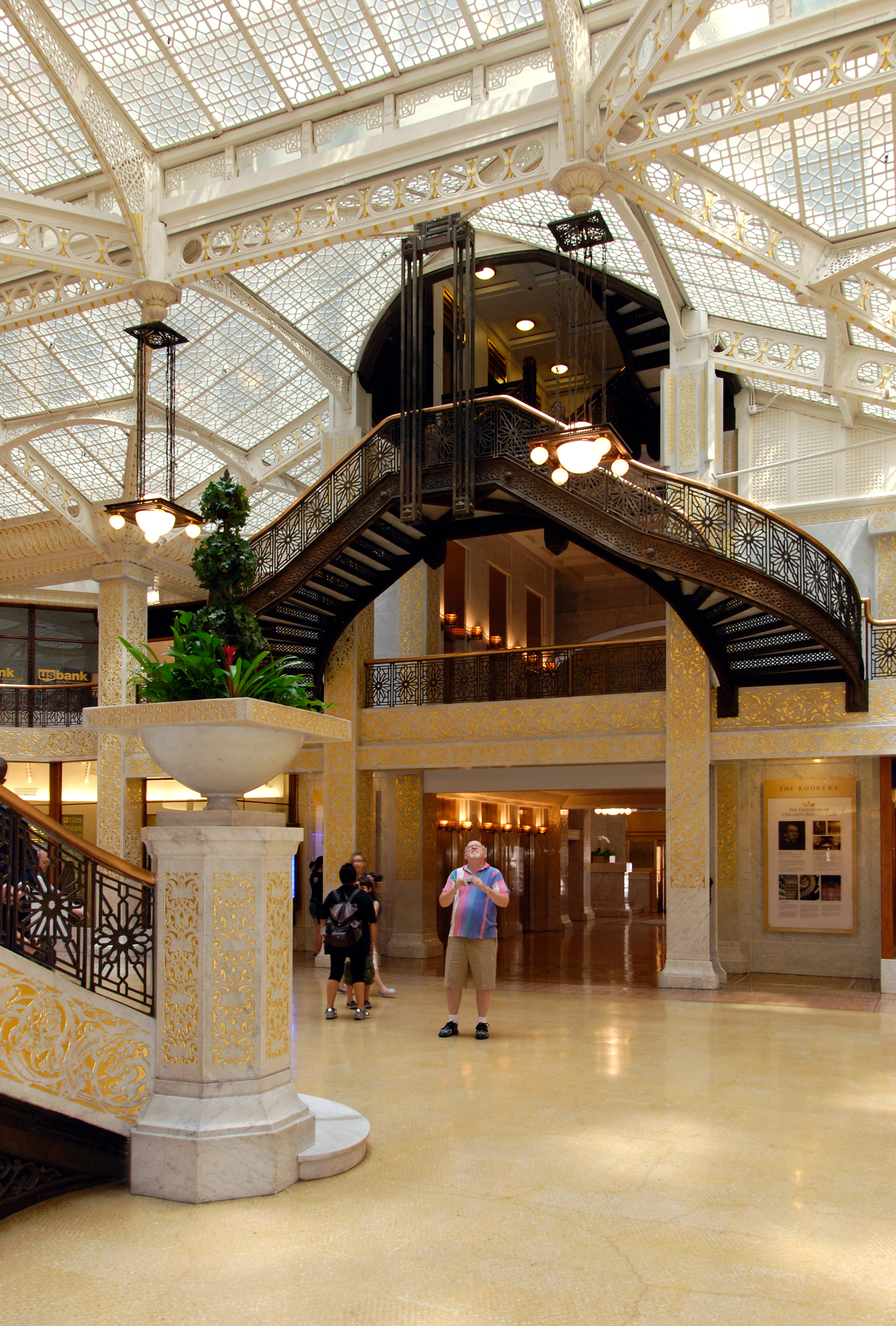 A main source of light for the lower floors.